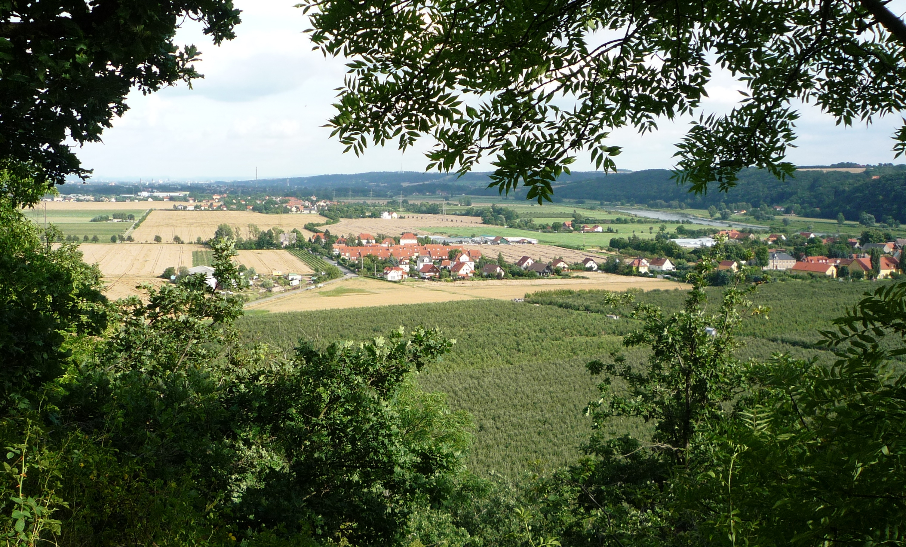 View on Sörnewitz